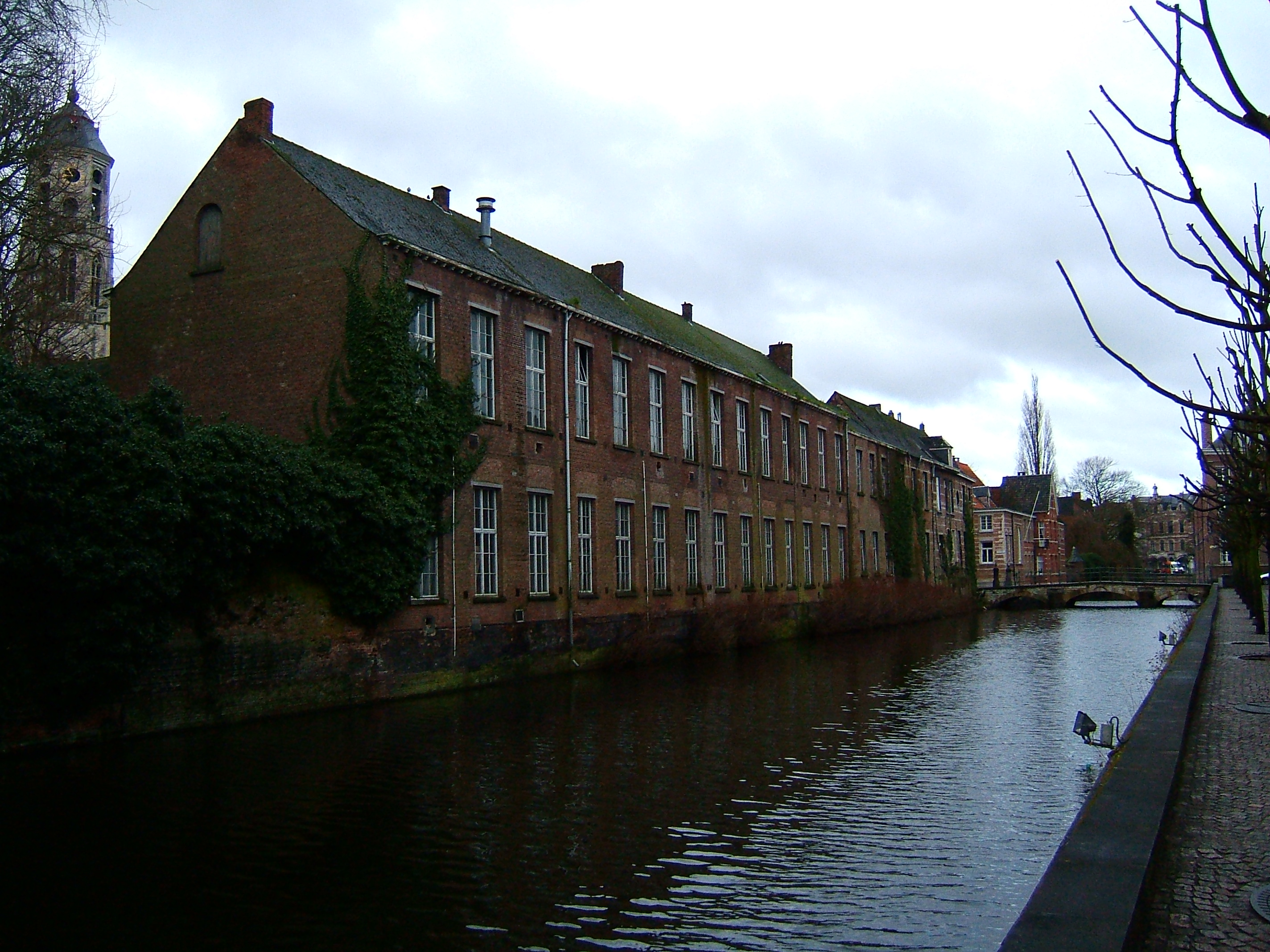 Nete river in Lier, Aragonbridge in the background